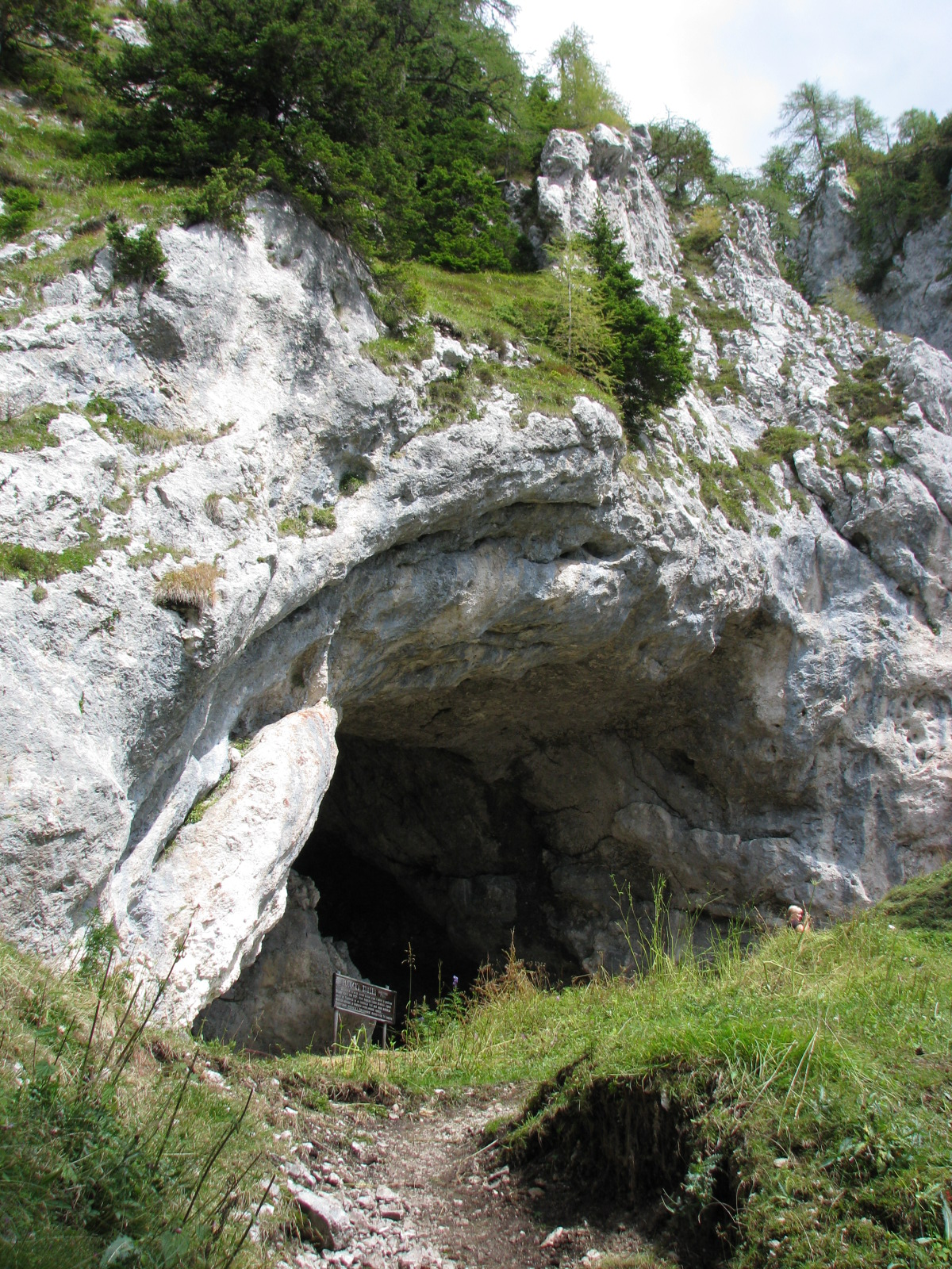 Entrance to Potok Cave, Slovenia, in 2013